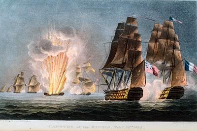 Capture of the Rivoli, by the Victorious, 22 February 1812. Taken from the Naval Chronology of Great Britain; Or, An Historical Account of Naval and Maritime Events from the Commencement of the War in 1803 to the End of the Year 1816 ... by James Ralfe.